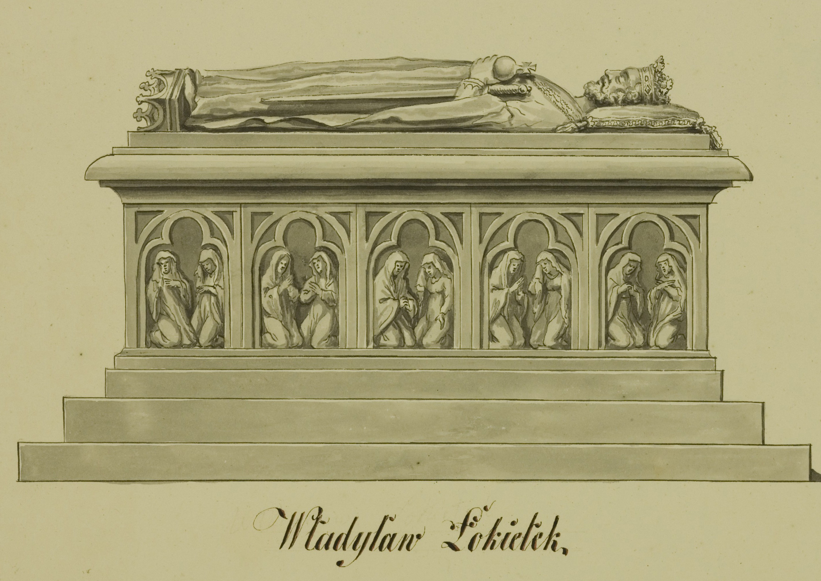 Tomb of Wladislaus I of Poland, Wawel cathedral. Drawn by Michał Stachowicz